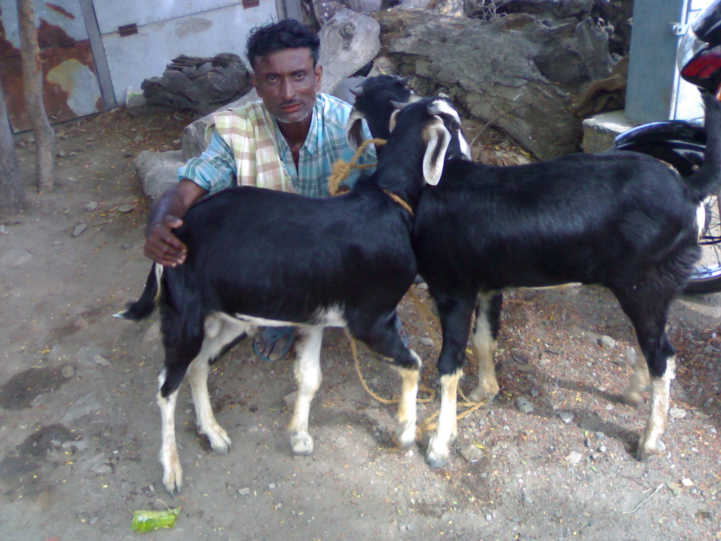 A man with a pair of kanni breed goats purchased in the weekly market at Ettayapuram